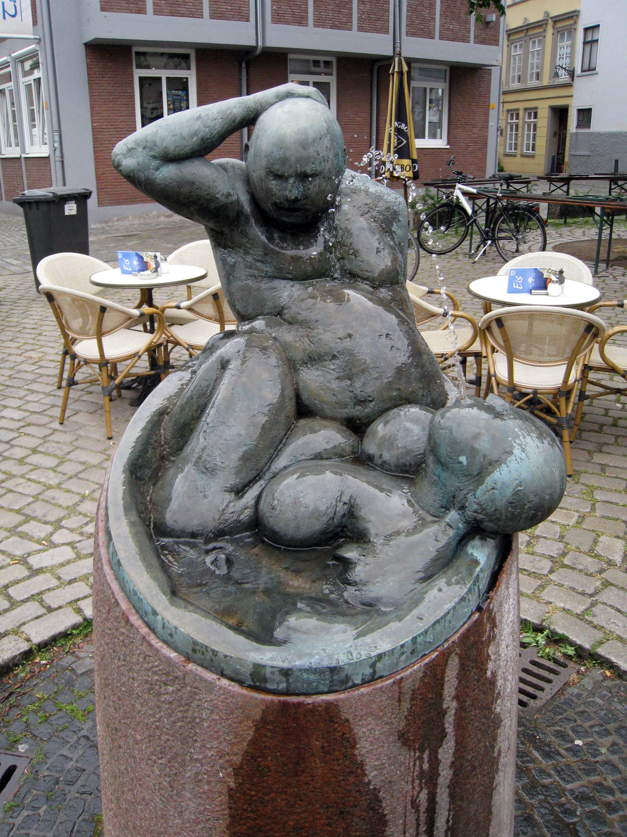 Die fröhlichen Badenden (“the jolly bathers”), sculpture from 1986 by Jürgen Cominotto at the street Am Stavendamm next to the Schnoor in Bremen, Germany.